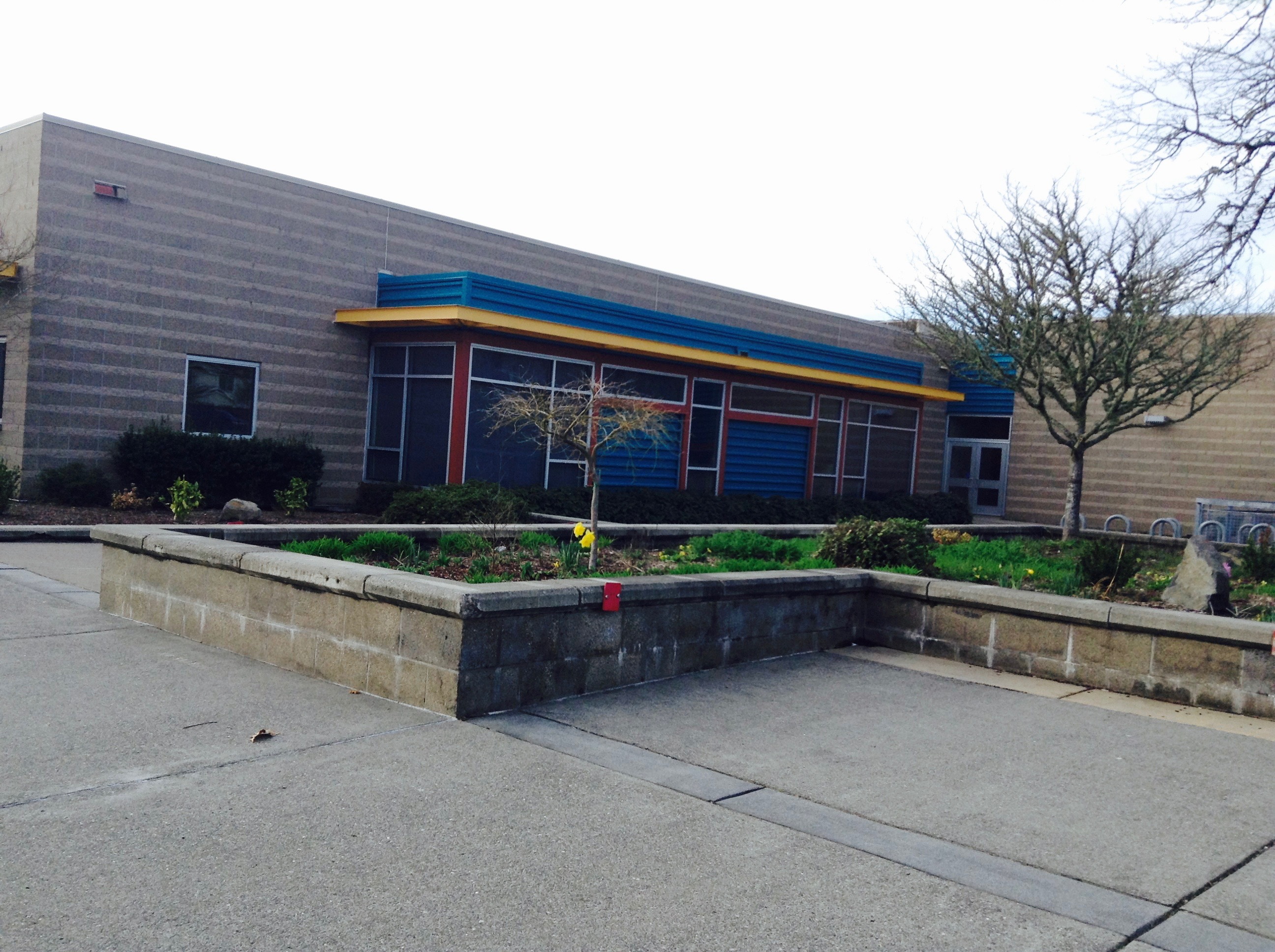 Jacob Wismer Elementary School in Oregon.